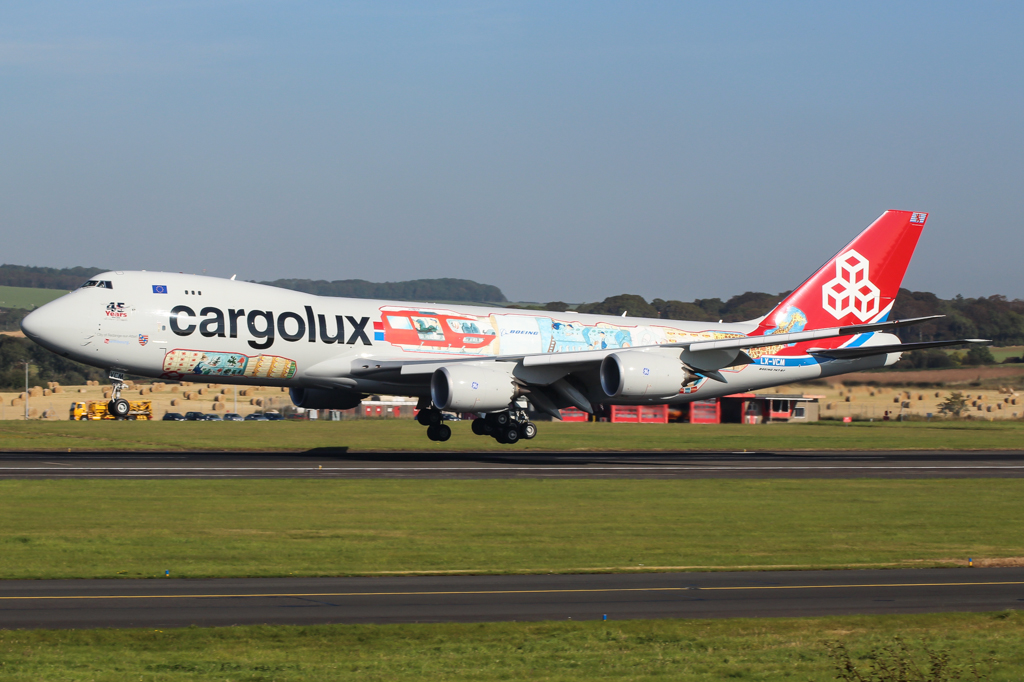 LX-VCM Boeing 747-8F Cargolux "Cutaway" making its first visit to Prestwick Airport on 30th September, a day after delivery